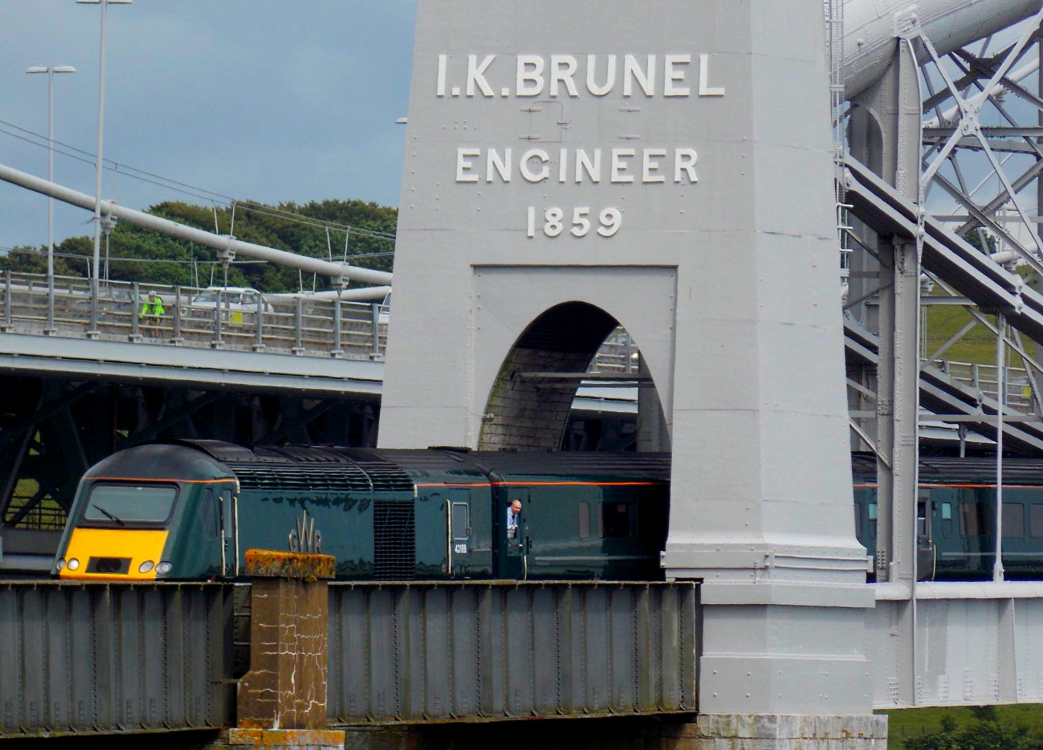 Untitled